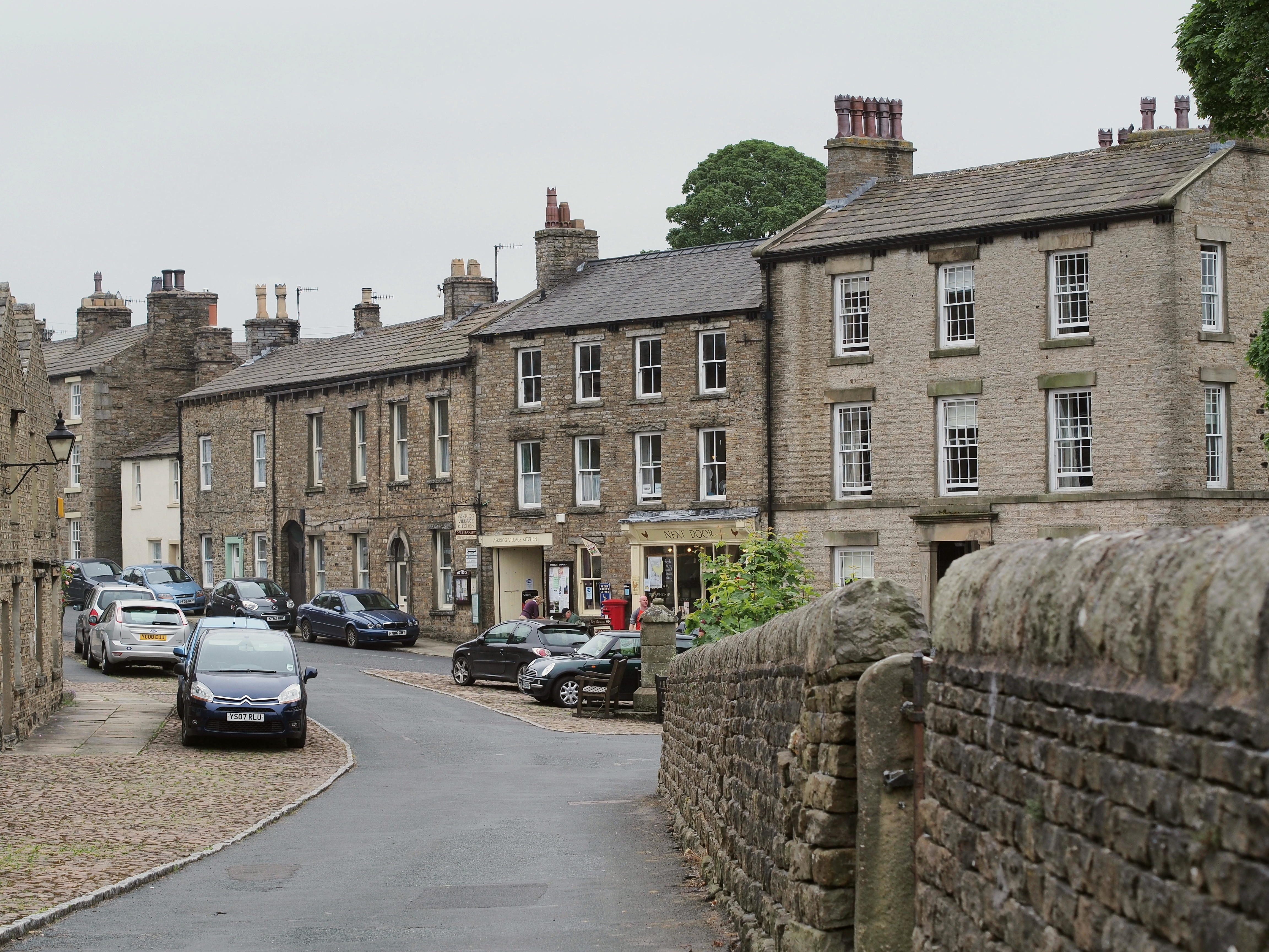 Village centre of Askrigg, Wensleydale. The house to the right, Skeldale, is known from the TV series "All Creatures Great And Small"